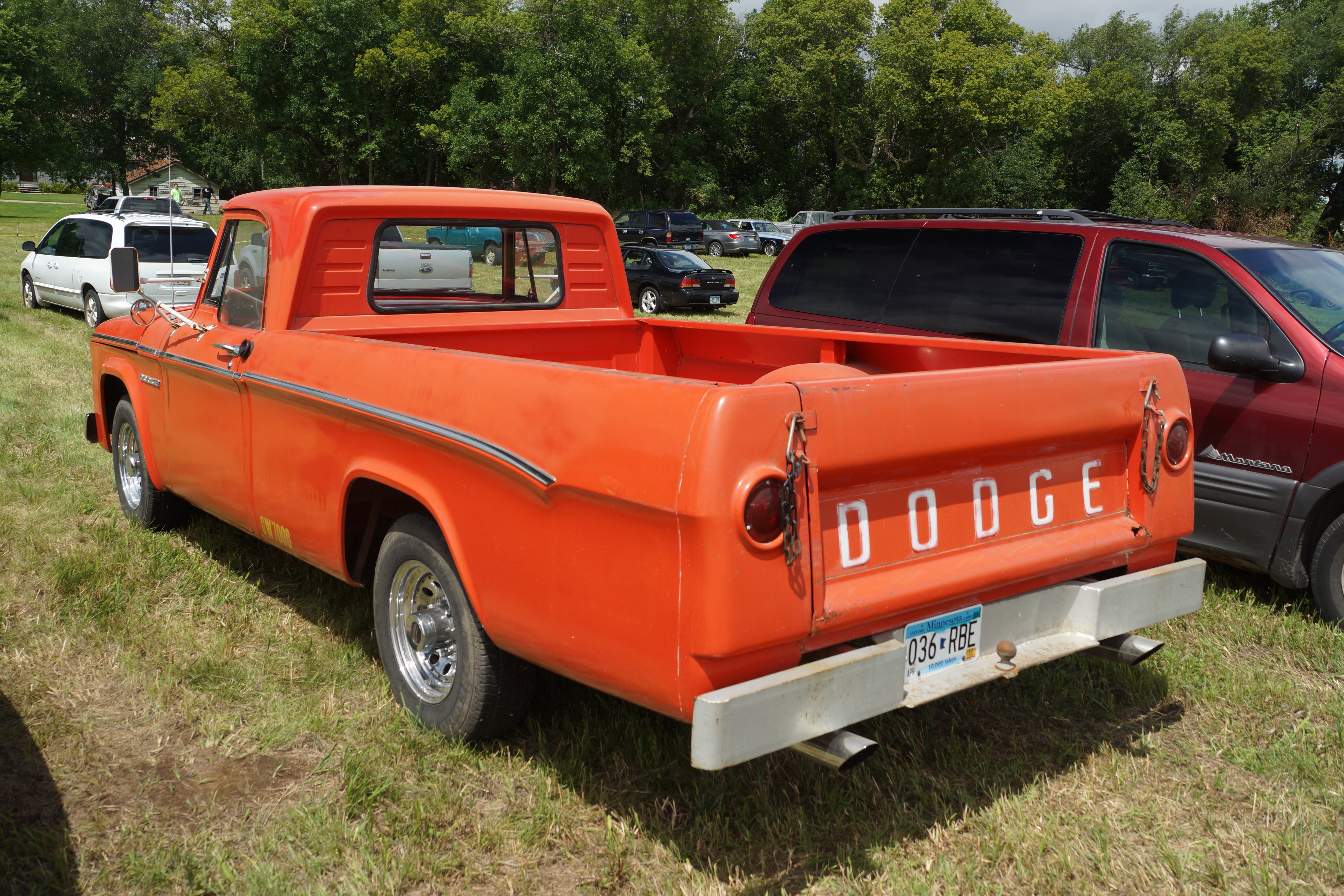 Click here for more car pictures at my Flickr site. Rohner's Auto Parts 3rd Annual Collector Car Gathering and Customer Appreciation Day Willmar, Minnesota July 2016 My Dad used to bring along as he would get parts for the family car. As a little car freak, I loved running around checking out all of the different cars. I bought my first car before I had my license and I had to make many trips to Rohner's to get that car road ready before I passed my road test at 16, I have been going there ever since and bringing friends along and getting them hooked as well. It was a great day and I heard many great experiences people had finding parts to fix their cars. I feel all of us should throw them an appreciation party.